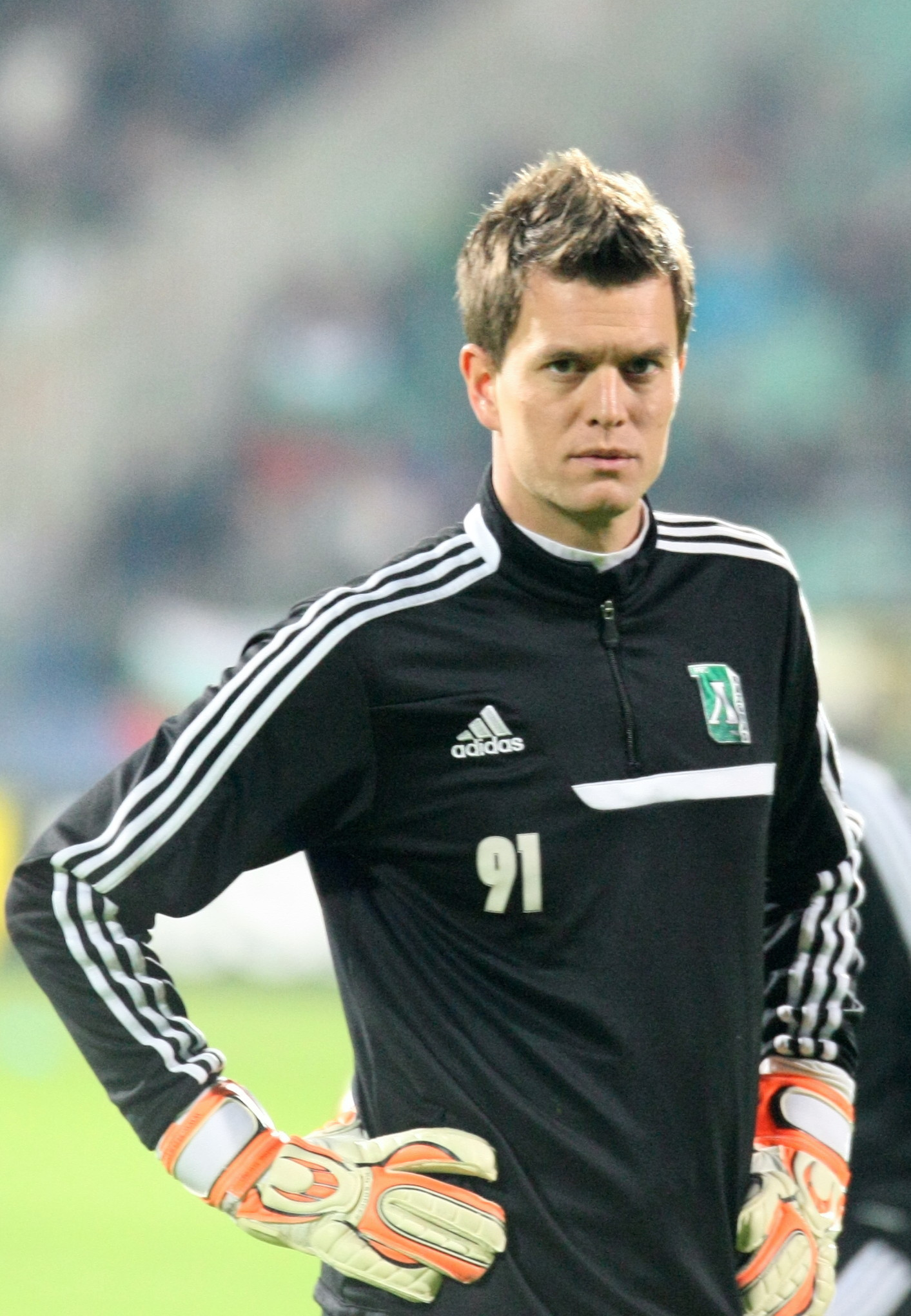 Ivan Cvorovich - serbian soccer player, goalkeeper, he played for bulgarian team Ludogorets Razgrad